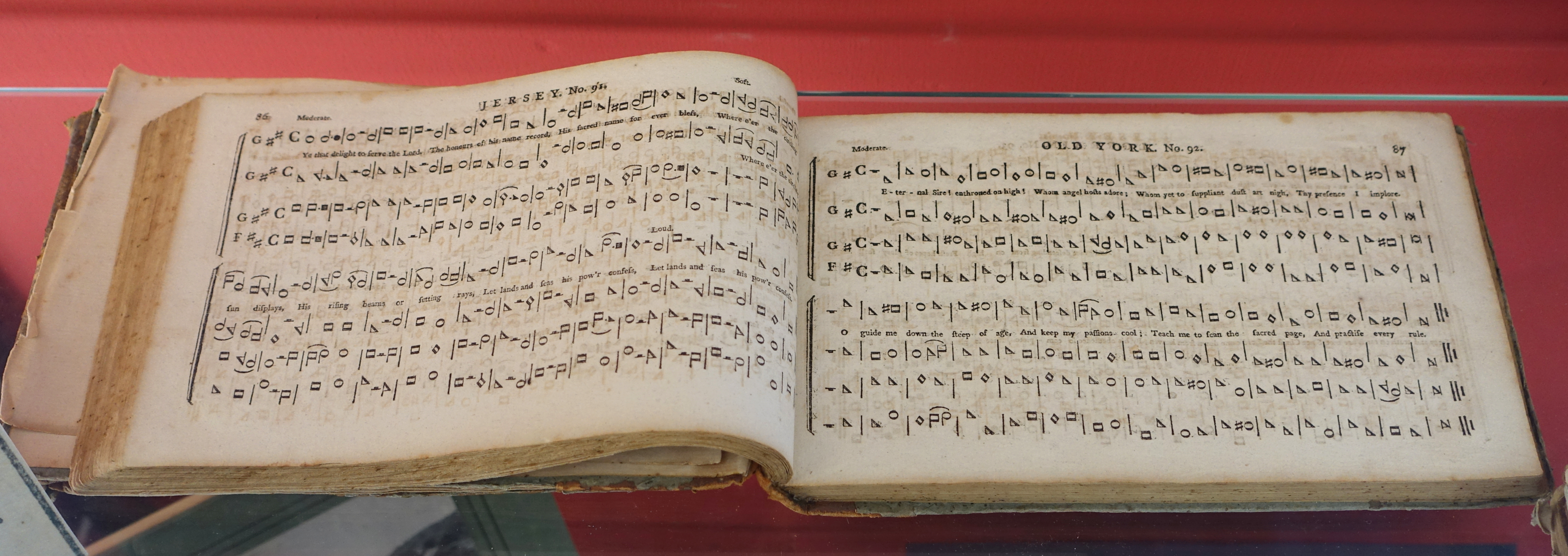 Exhibit in the Bennington Museum - Bennington, Vermont, USA. This work is in the public domain because the artist died more than 70 years ago.